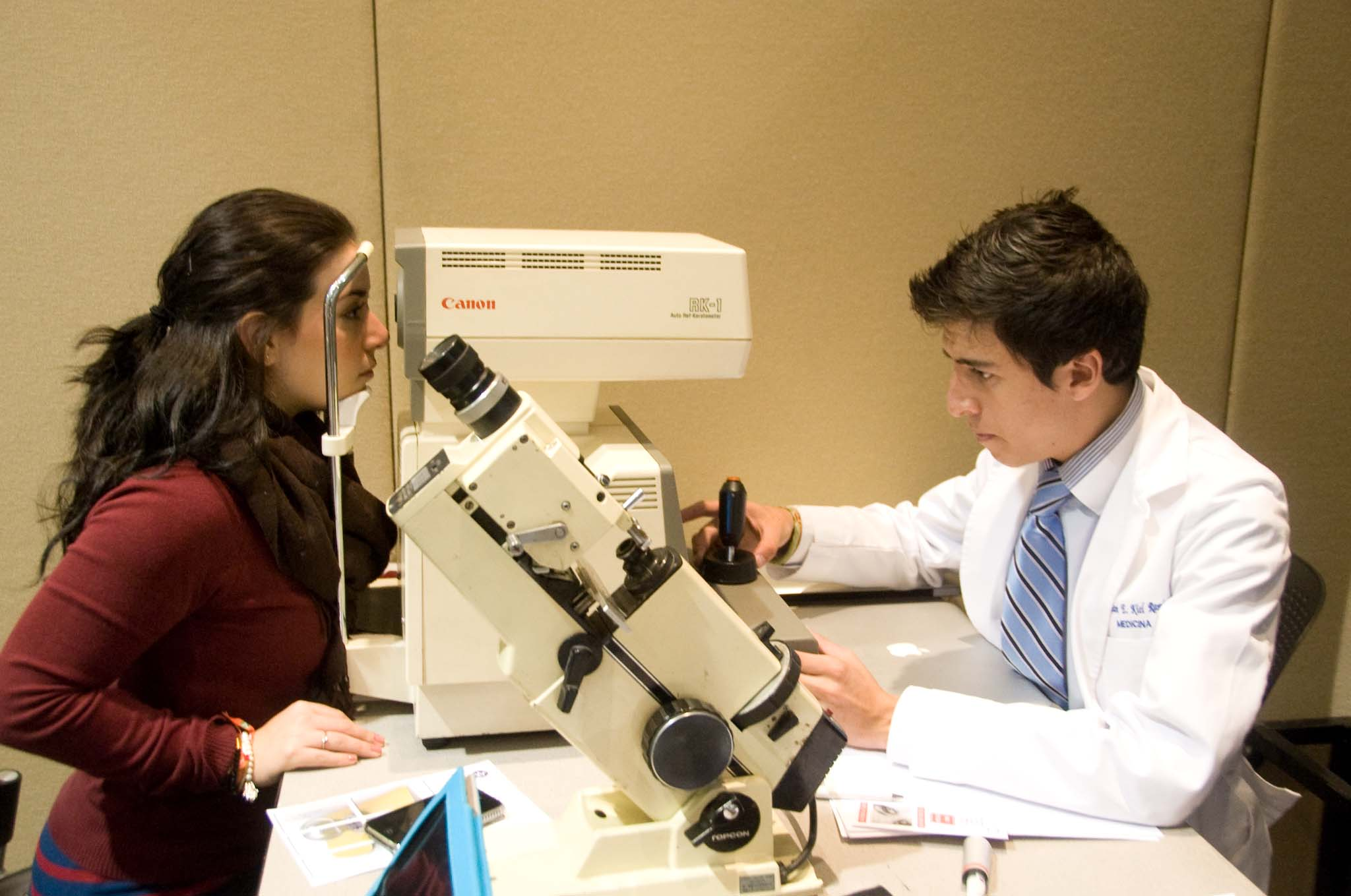 Medical student doing eye exam at ITESM CCM with a Canon refractometer